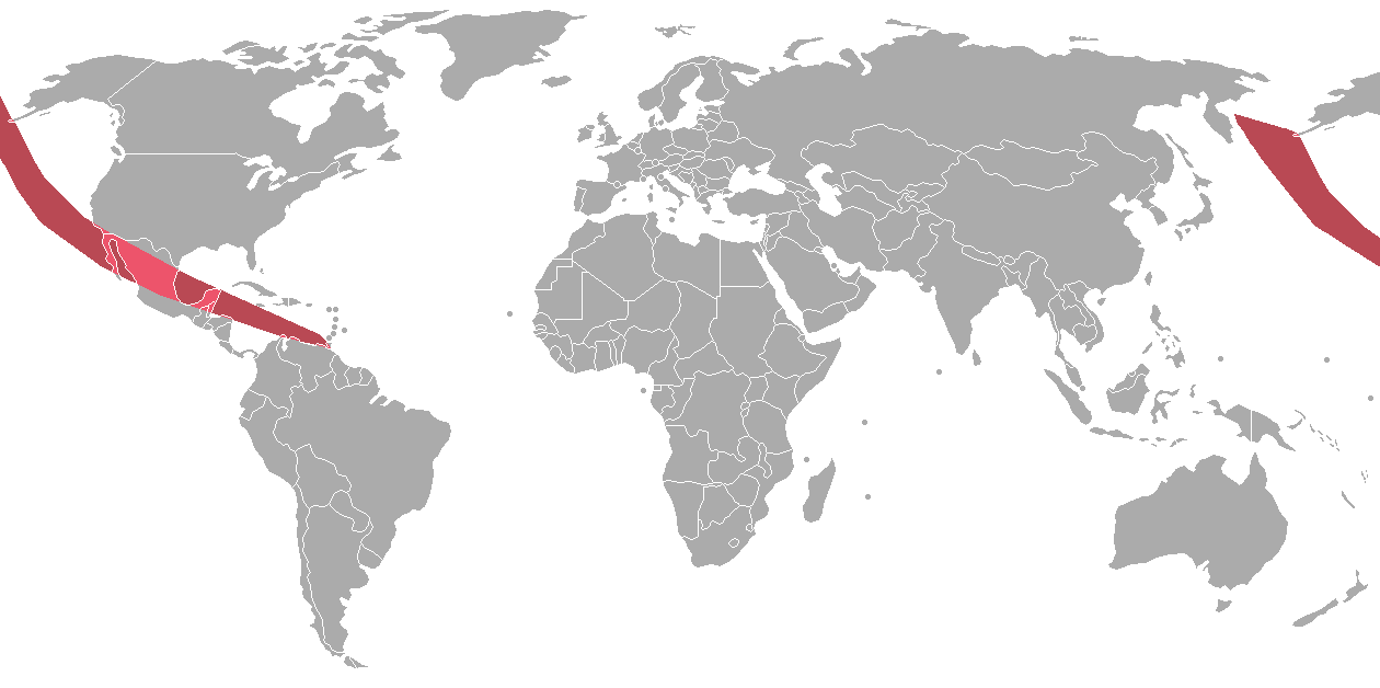 Area where Apophis could crash into Earth. Área en la que podría impactar el meteorito Apophis.